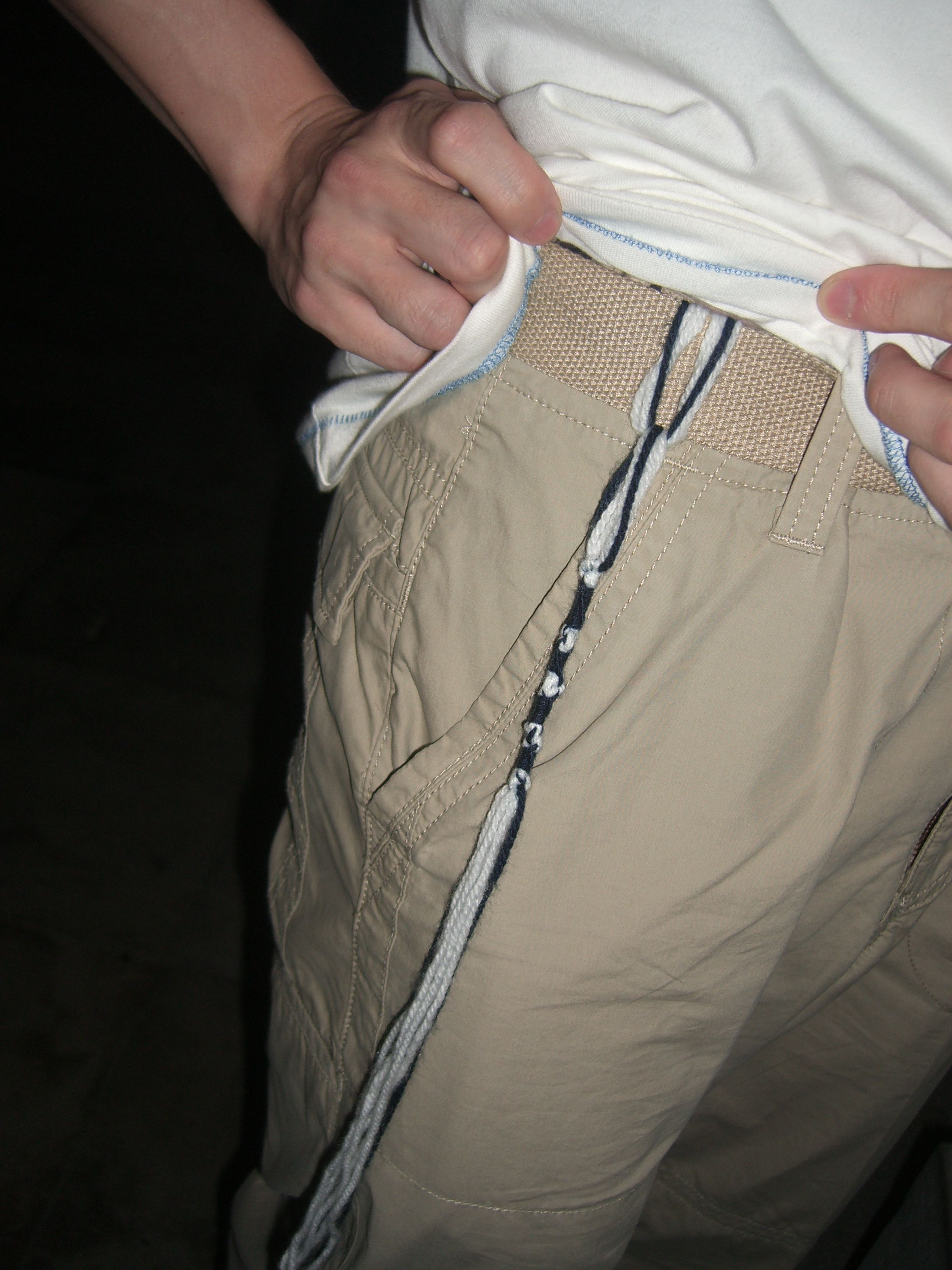 a Tzitzit with a pair of trousers